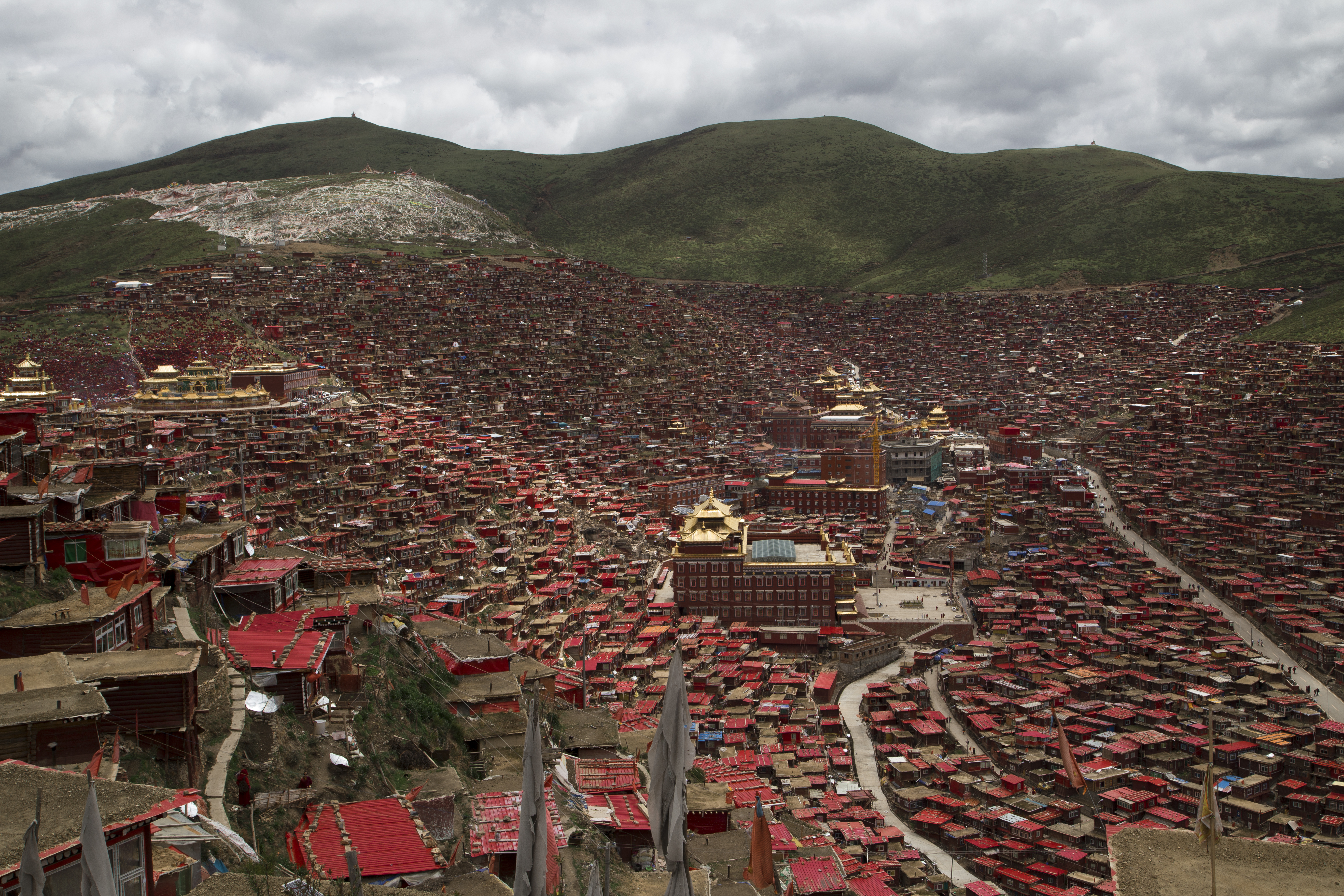 Larung Gar Five Sciences Buddhist Academy 2014